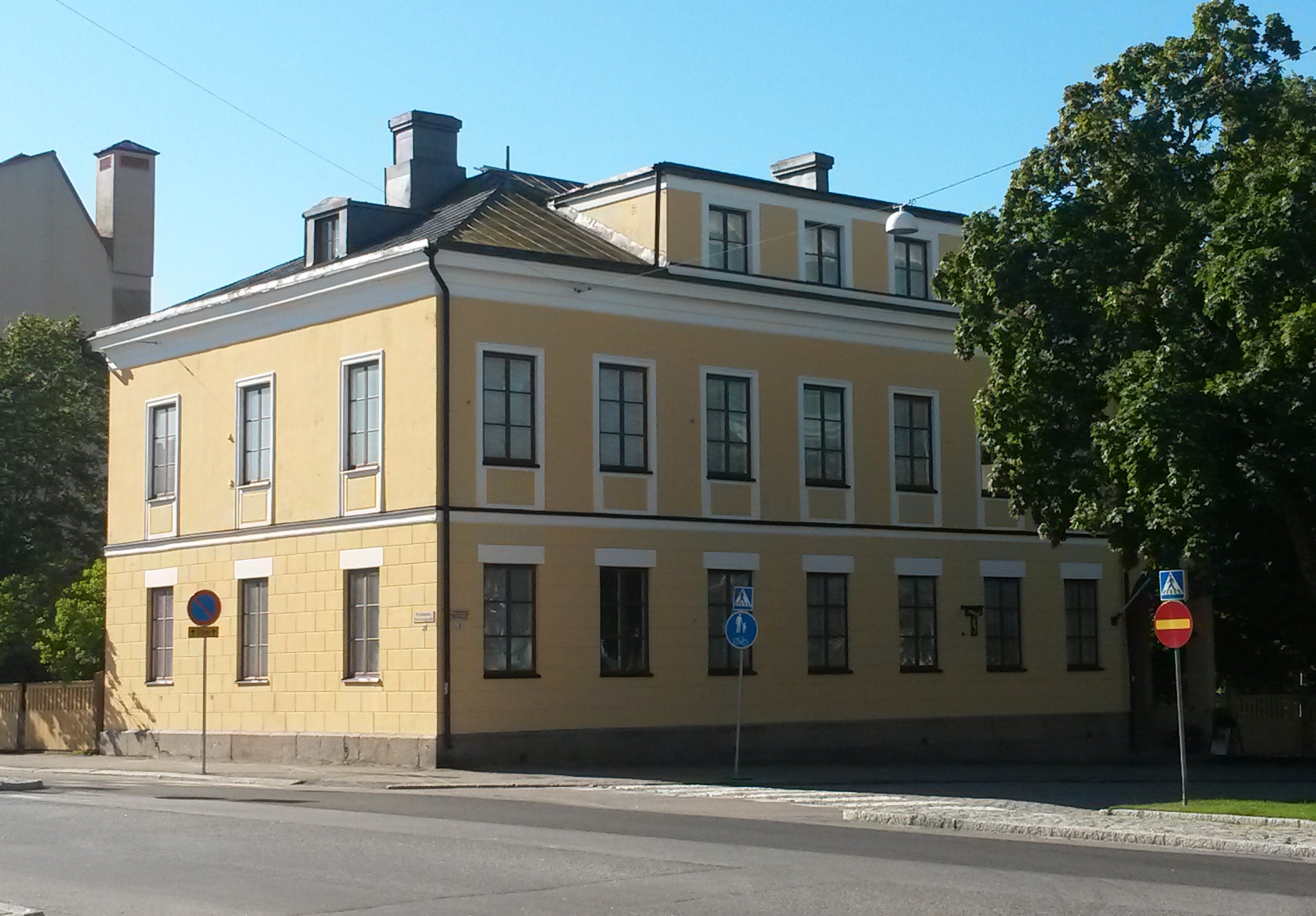 Tikanoja Art Museum in Vaasa, Finland.